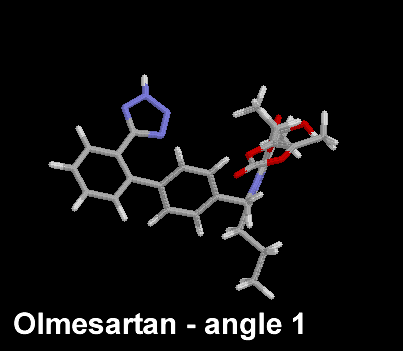 Created by Osni Moreira Filho on March 20, 2006.